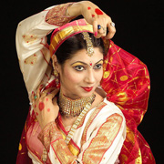 Renowned Kathak Exponent